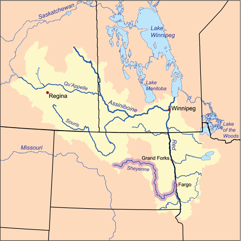 This is a map of the Red River of the North drainage basin, with the Sheyenne River highlighted. I, Karl Musser, created it based on USGS and Digital Chart of the World data.